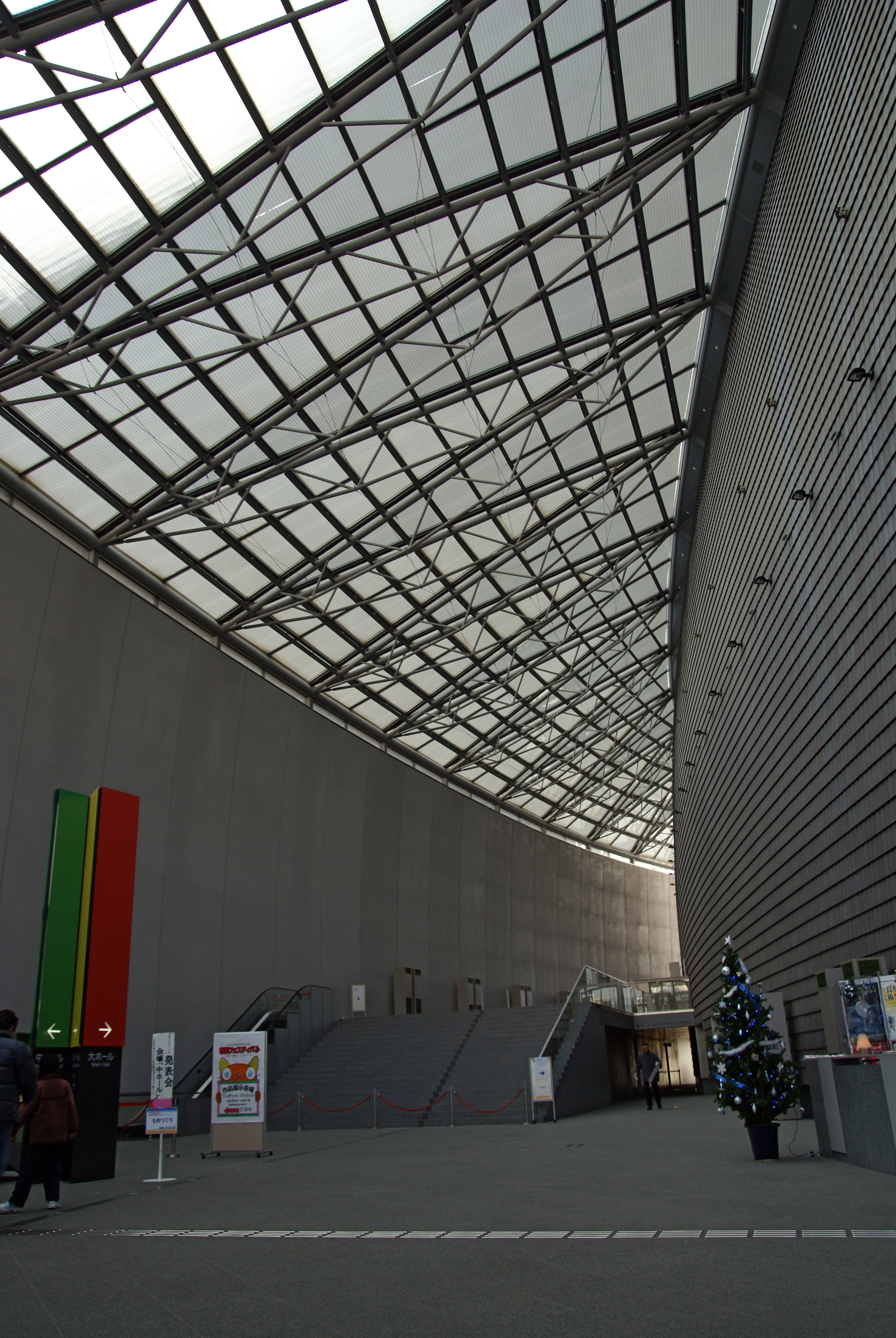 Nara Centennial Hall in Nara, Nara prefecture, Japan